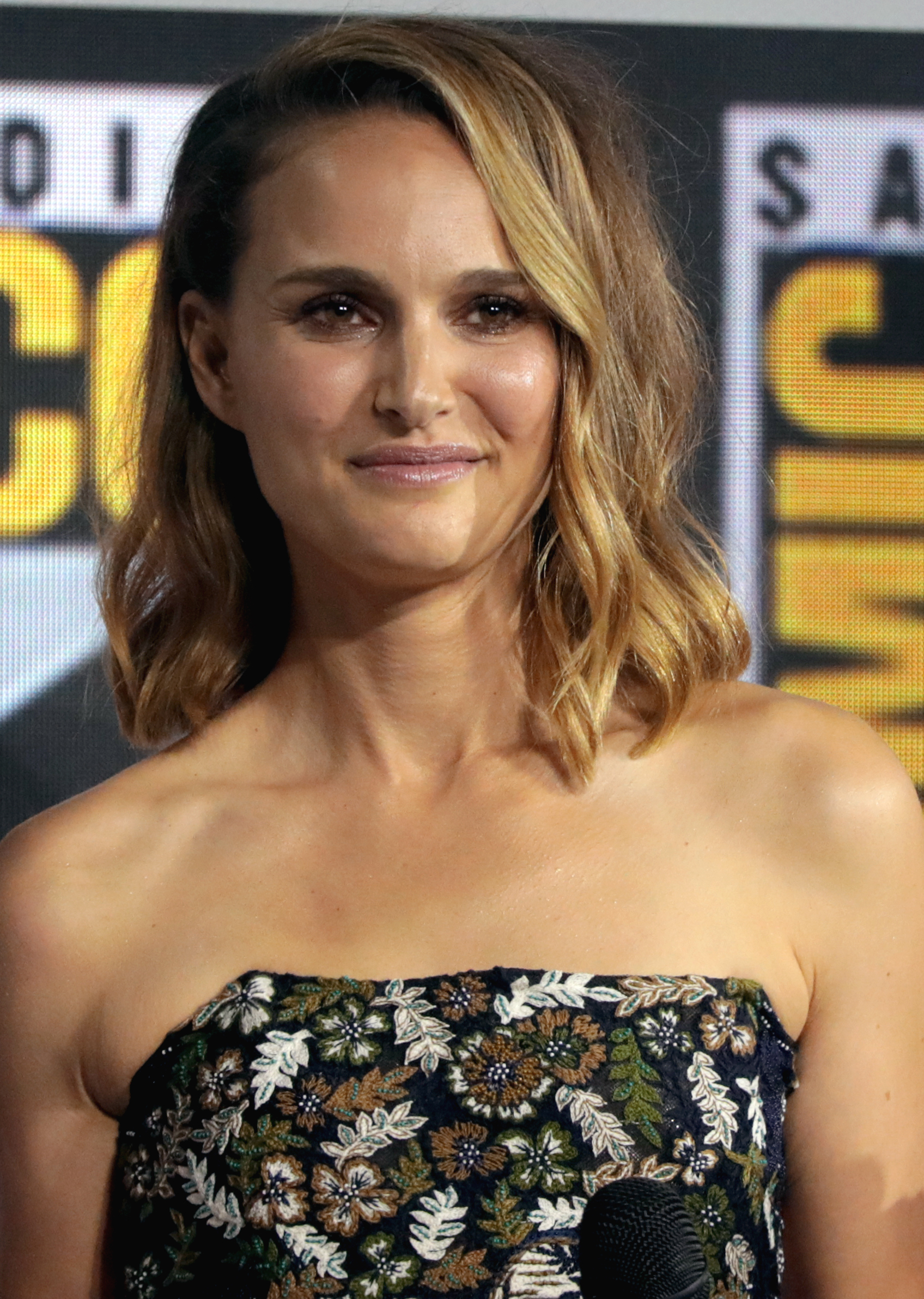 Natalie Portman speaking at the 2019 San Diego Comic Con International, for "Thor: Love and Thunder", at the San Diego Convention Center in San Diego, California.